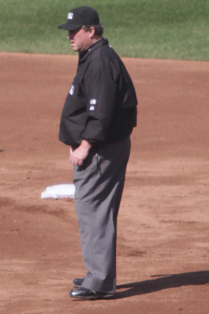 Gerry Davis (umpire) for the 2014 Los Angeles Dodgers against the 2014 Chicago Cubs at Wrigley Field.